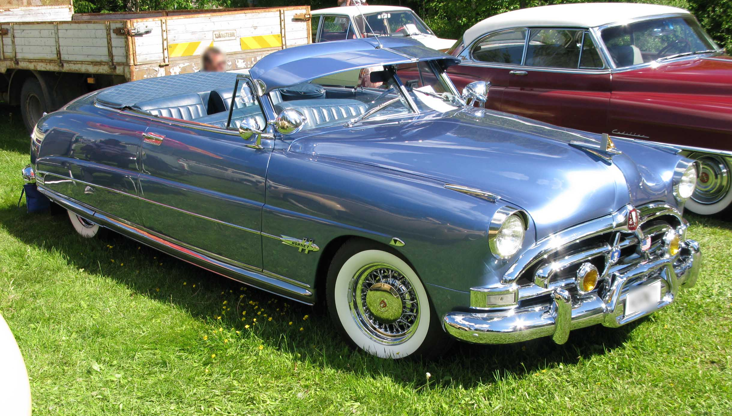 1951 Hudson Hornet.Event: Ånnaboda Classic Motor 2011